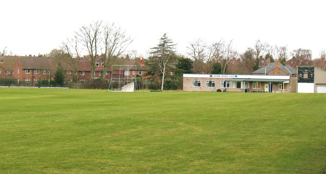 Acomb Sports Club Cricket ground and pavilion in Acomb.